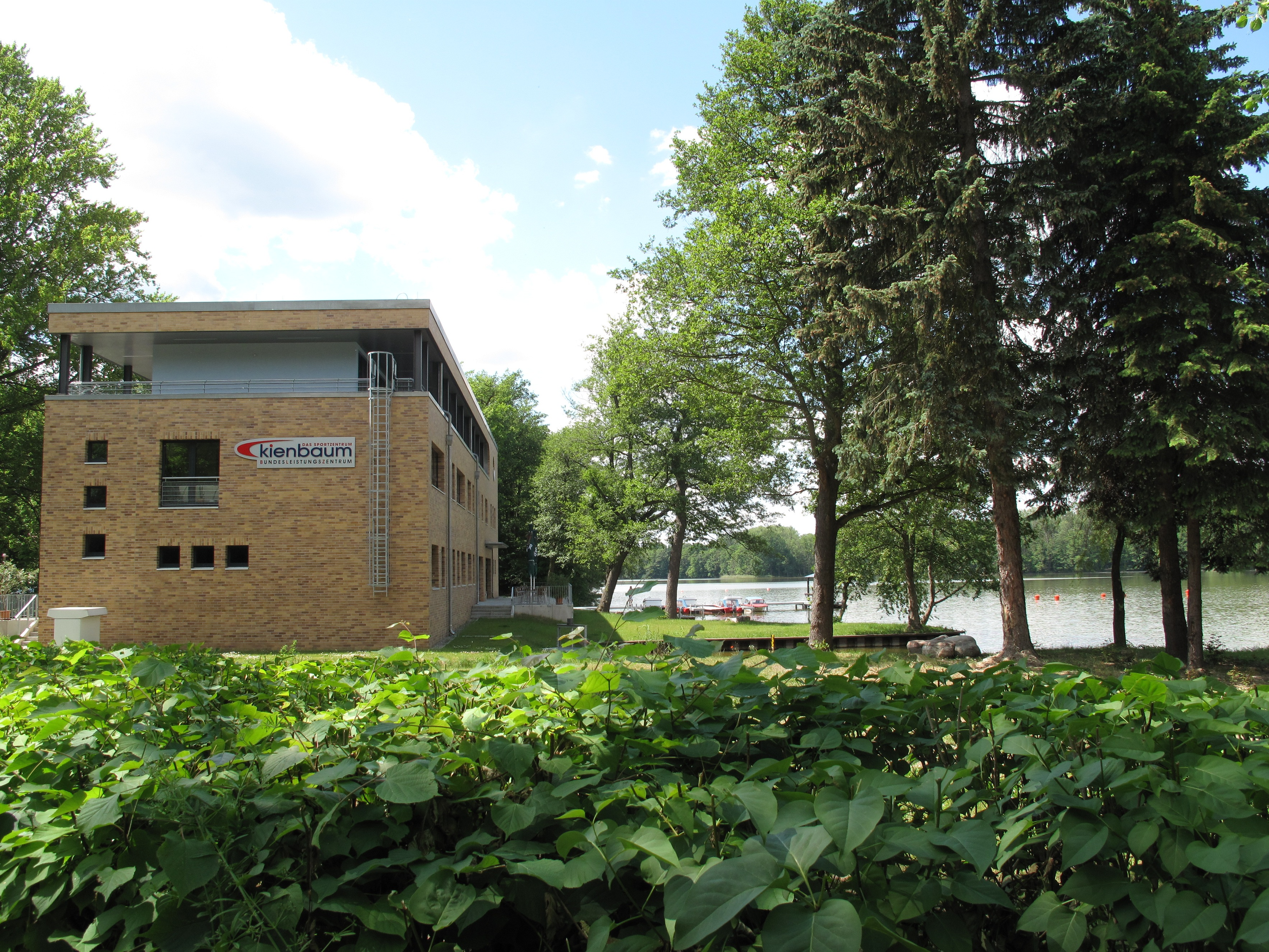 Bundesleistungszentrum Kienbaum (German Federal Sports Center Kienbaum of the German Olympic Sports Confederation (DOSB)) at the Liebenberger See. The Liebenberger See is a lake in the west of Kienbaum, a part of the municipality Grünheide, District Oder-Spree, Brandenburg, Germany. The lake covers 51 hectare.